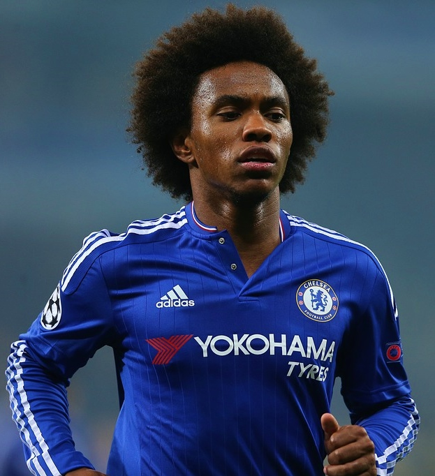 Willian